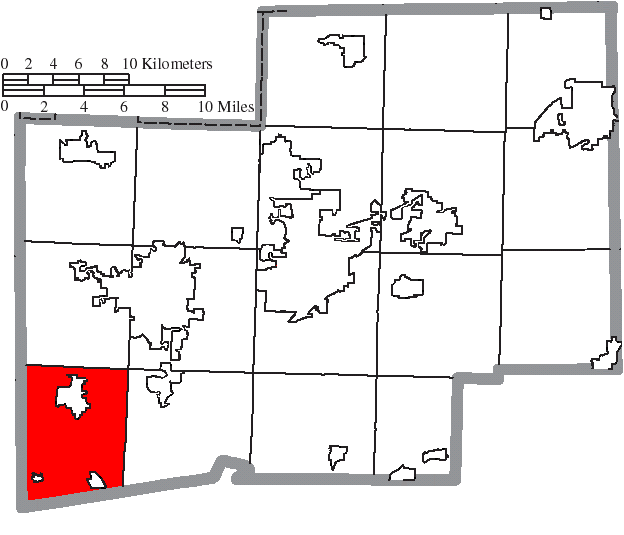 Map of the municipal and township boundaries of Stark County, Ohio, United States, as of the 2000 census, with the location of Sugar Creek Township highlighted. Township borders are shown only in unincorporated areas in order to differentiate incorporated and unincorporated areas more clearly.